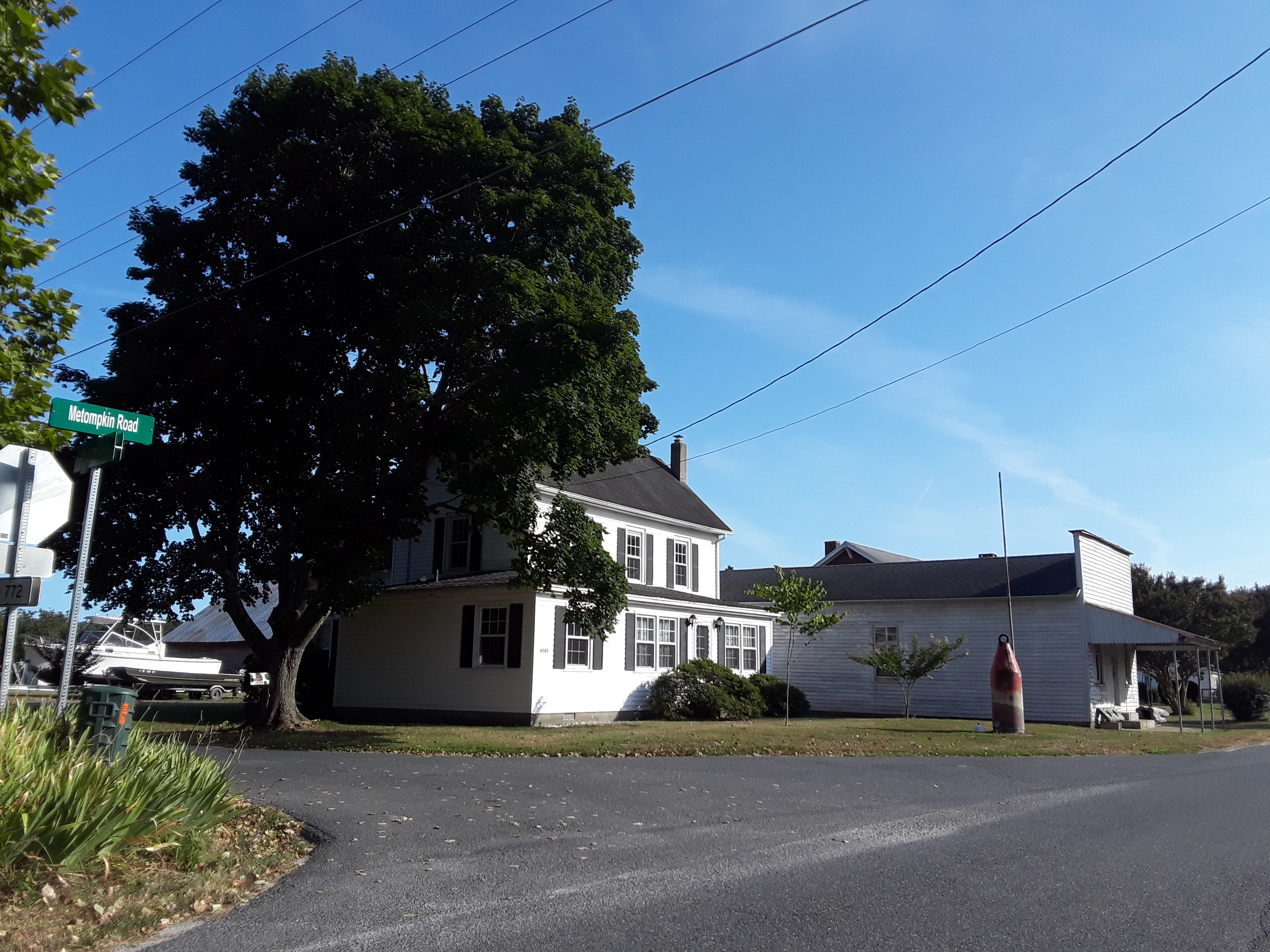 Taken on a visit to the Eastern Shore of Virginia, July 2018